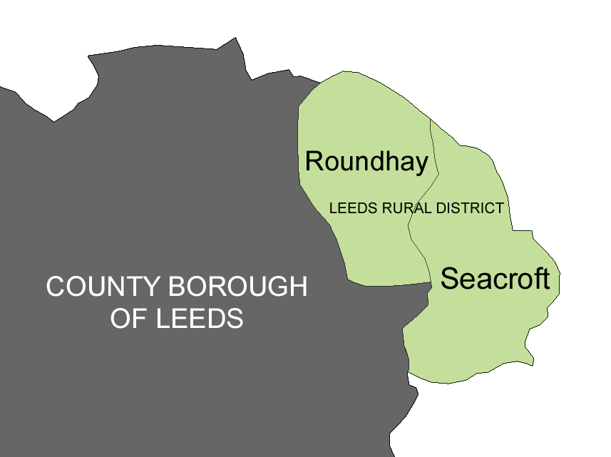 Leeds Rural District parishes in 1911